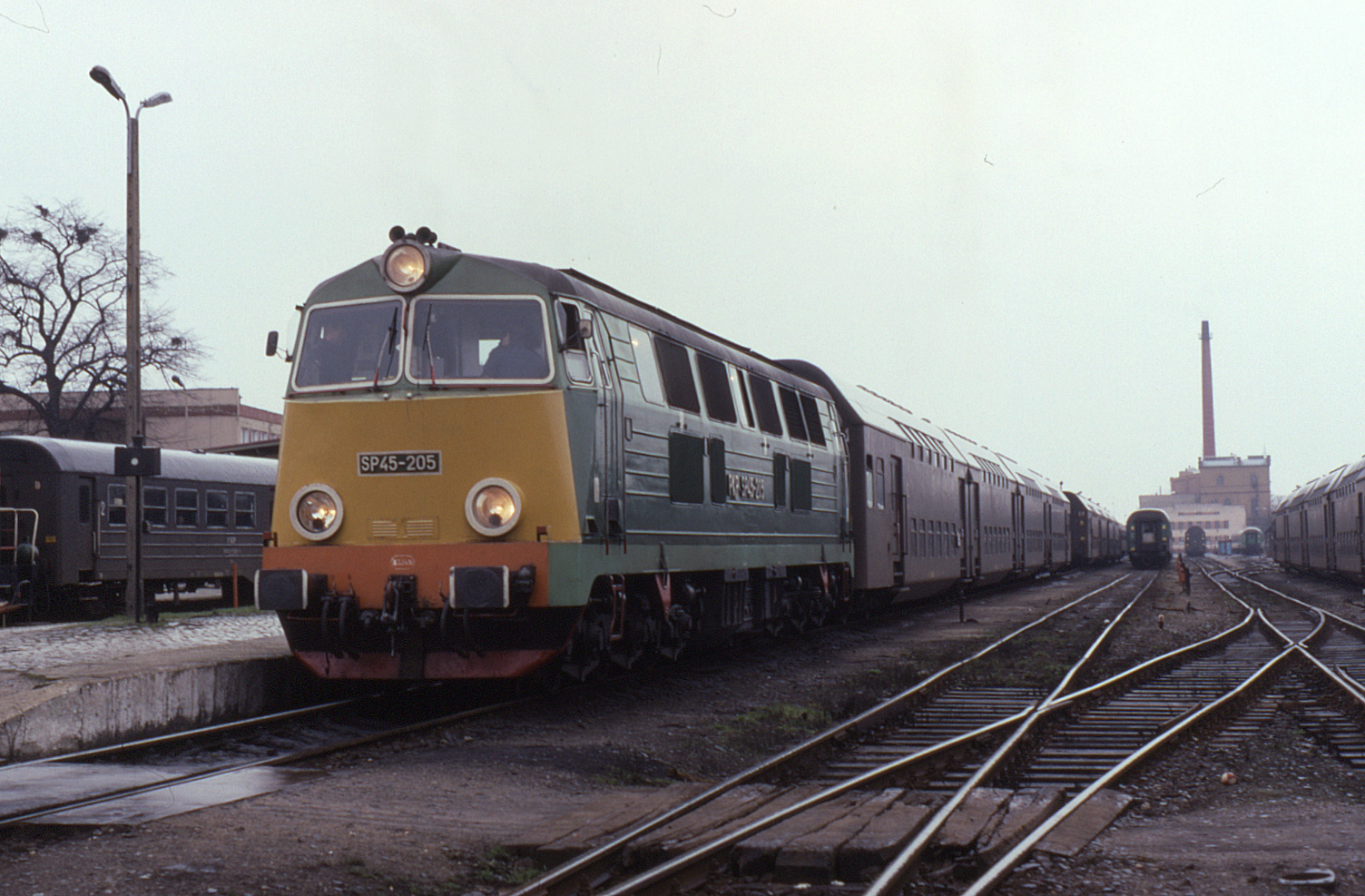 SP45-205 at Leszno on train 33031, 14:22 Leszno to Wolsztyn. Photo taken 25 March 1994.